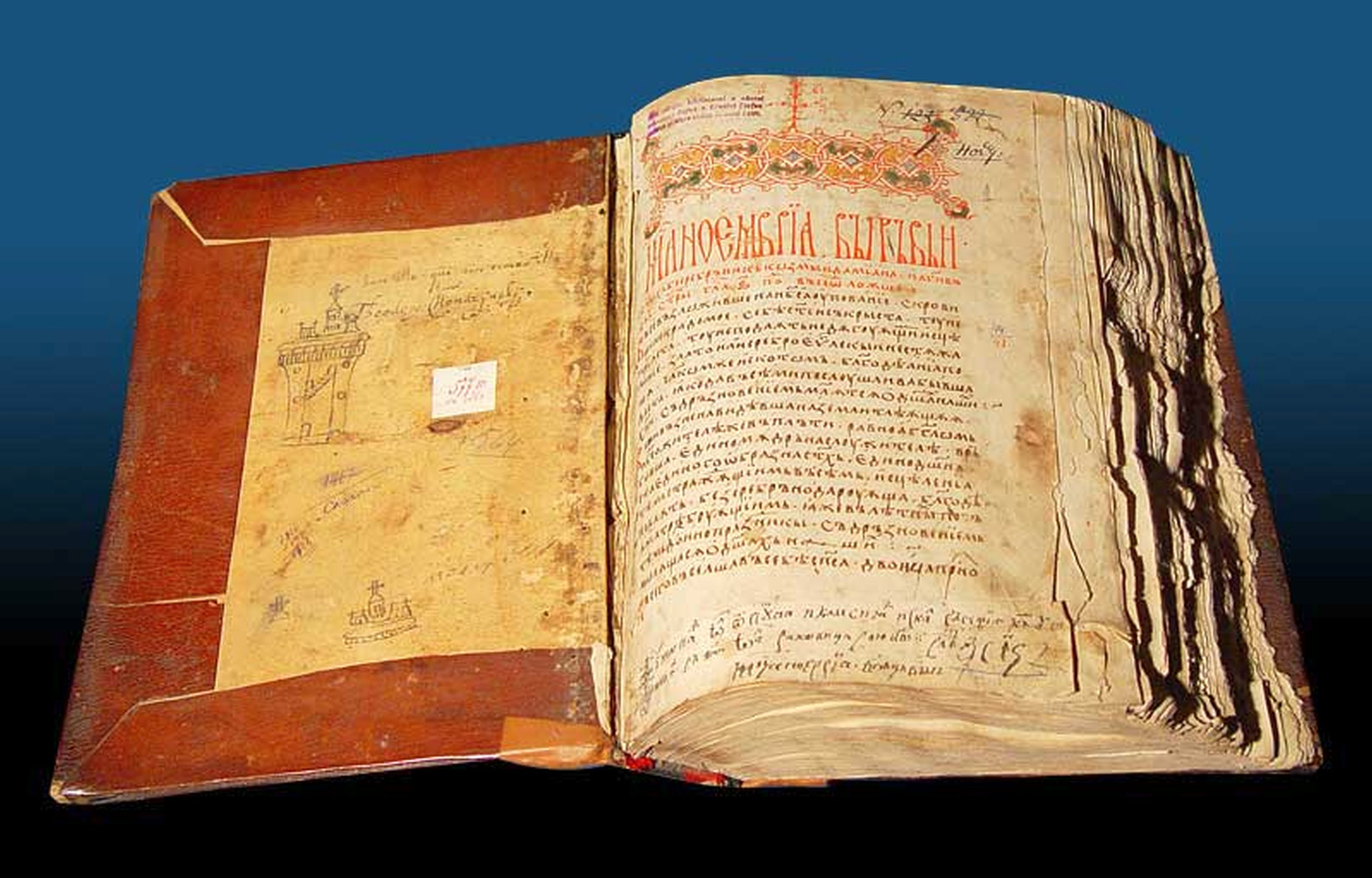 Religious Book (Minei) from the Putna Monastery, Romania